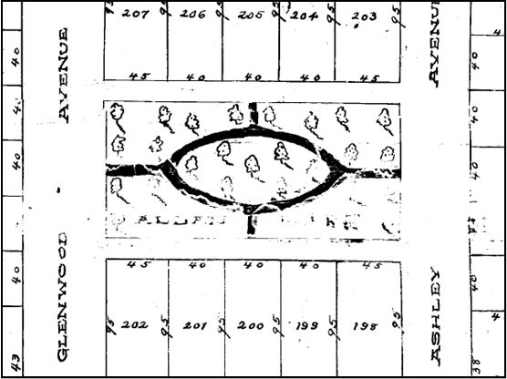 The location of Allan Park was shown when a plat was recorded in 1912 for the southeastern quadrant of Hampton Park Terrace.